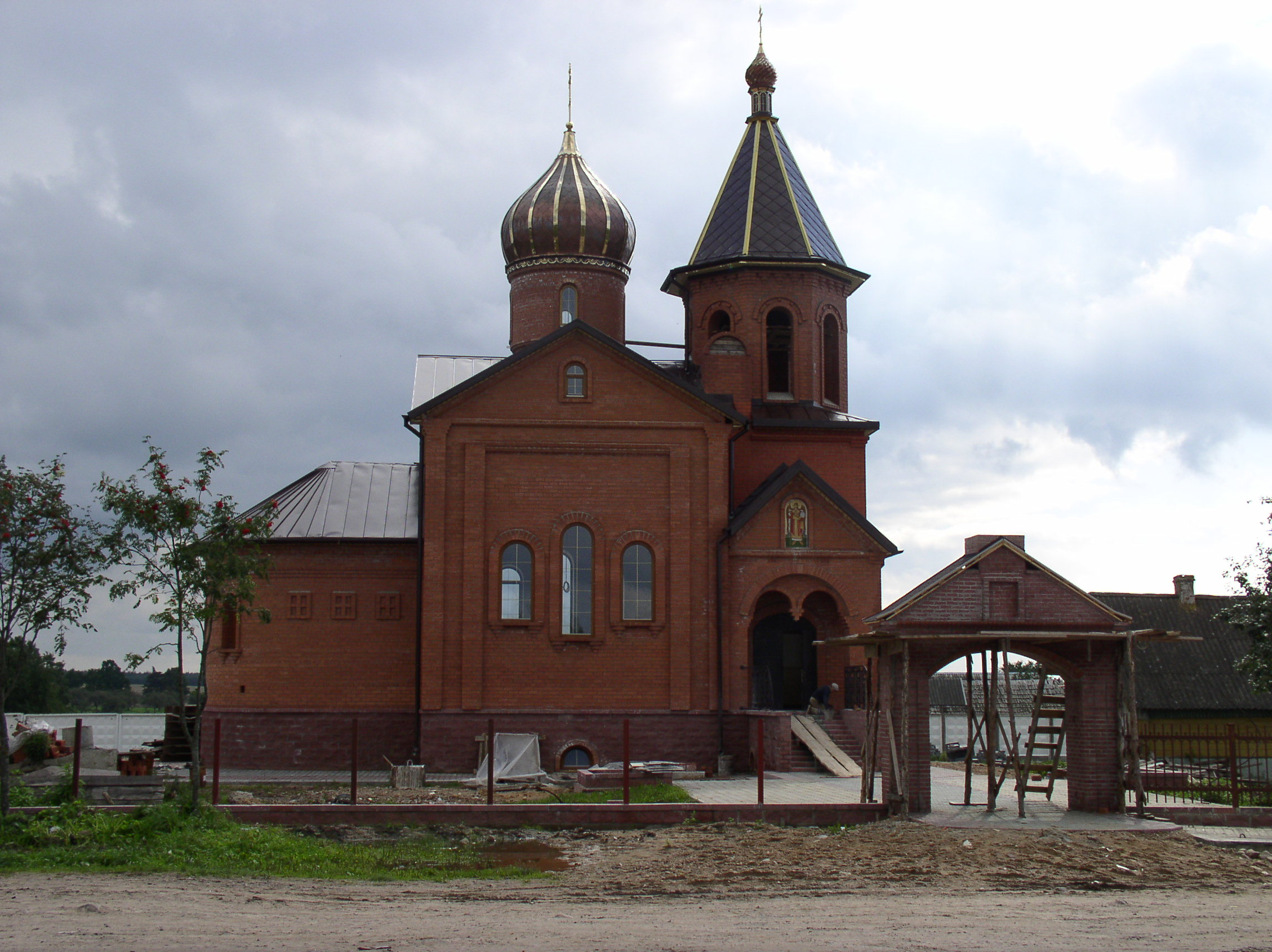 Church of Archistratege Michael. Naliboki, Belarus.